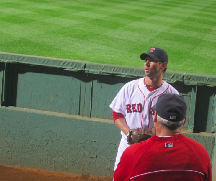 Craig Breslow warming up in the bullpen in August 2013